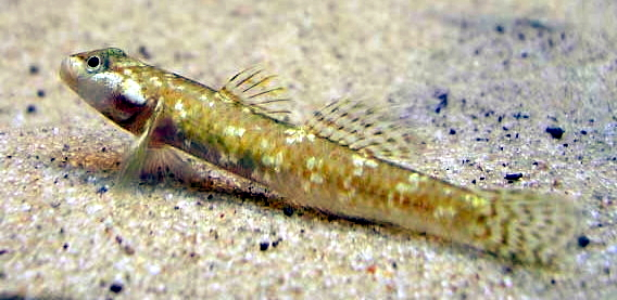 Female Rhinogobius duospilus; aquarium spcimen, approximately 4 cm long.